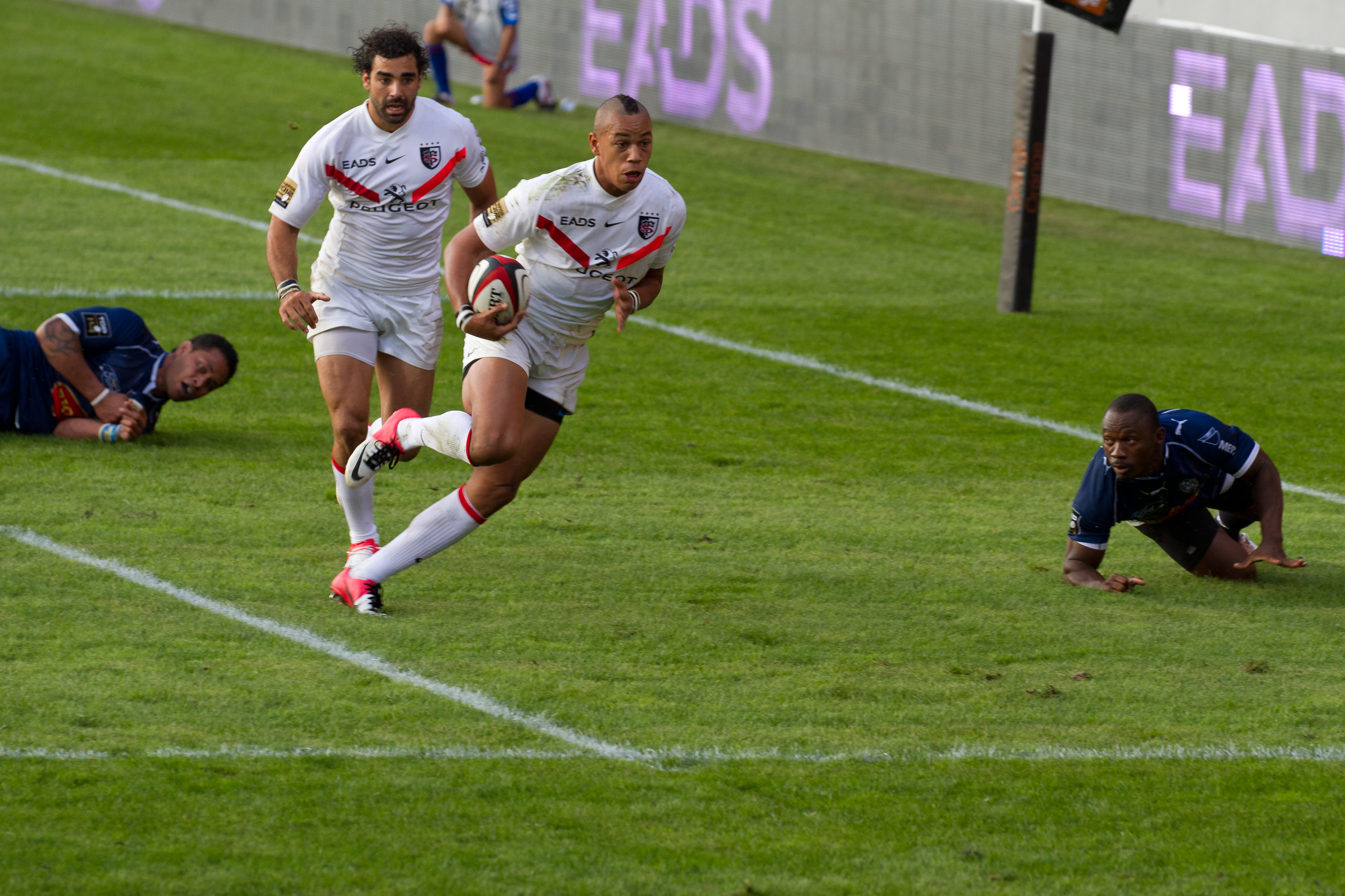 Top 14 — 8 September 2012, Stade Ernest-Wallon. Match between: Stade toulousain — SU Agen